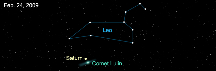 Comet Lulins position on february 24, 2009